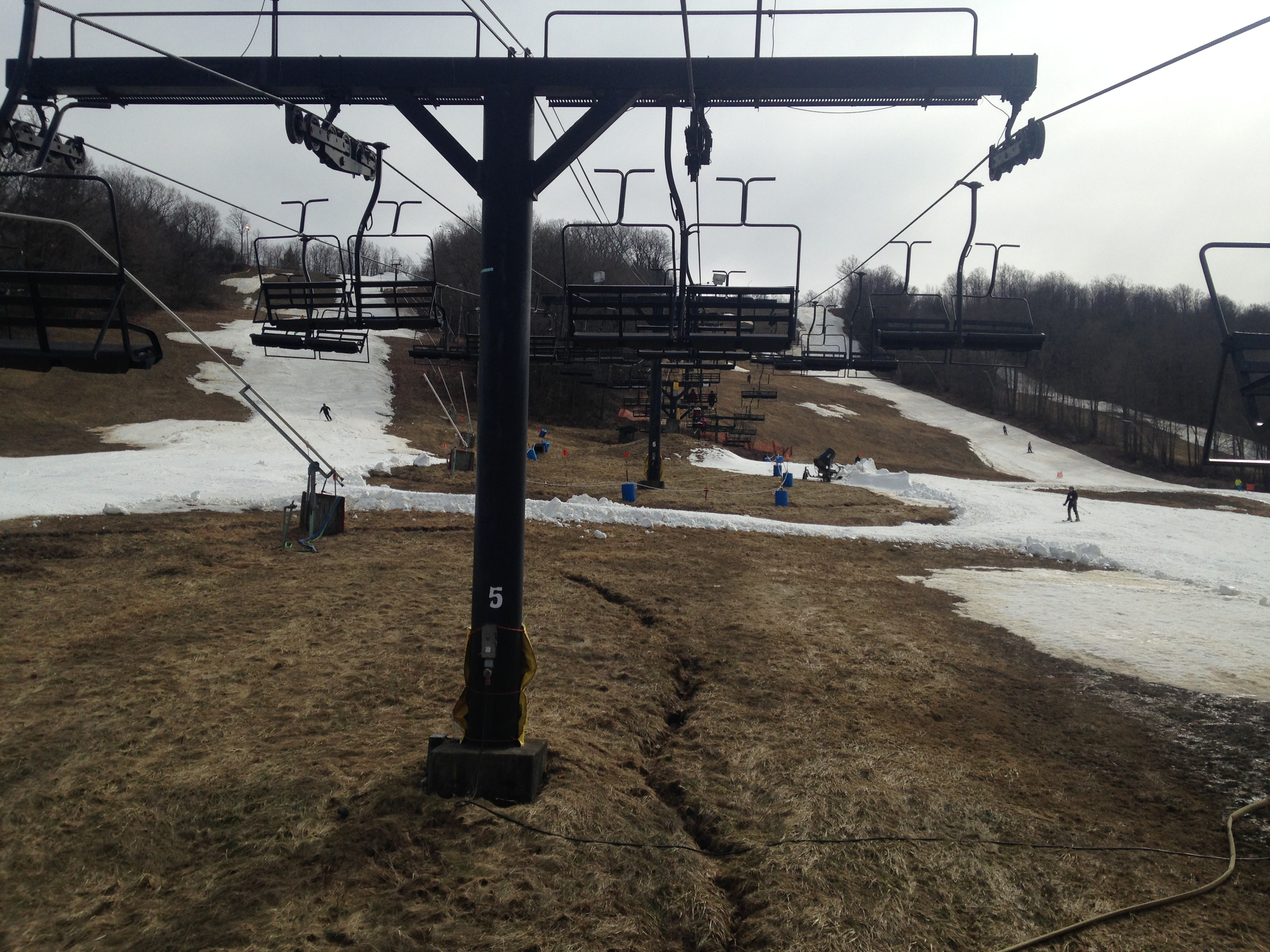 Swain in ski country.